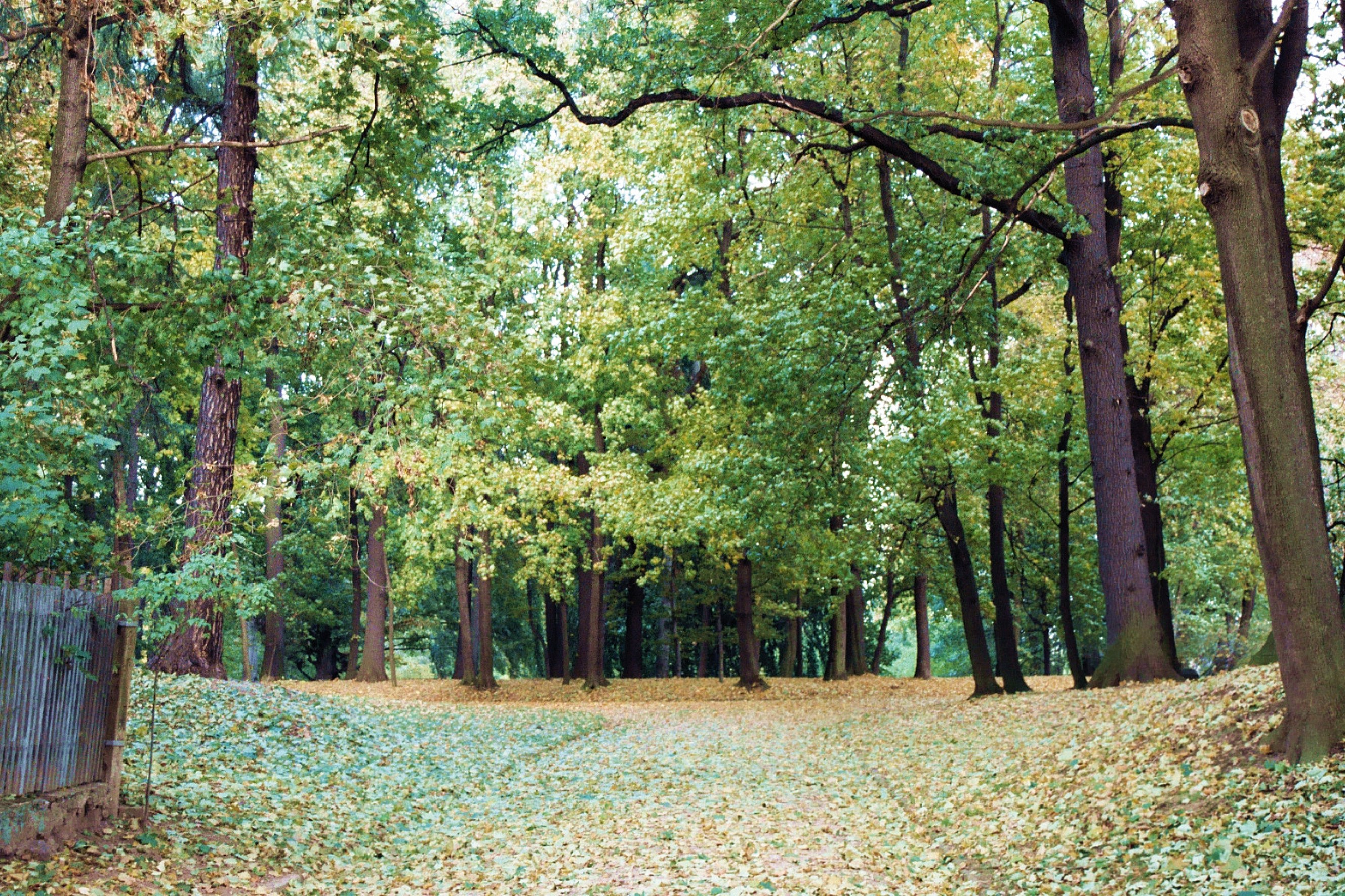 Meineweh, autumn in the park